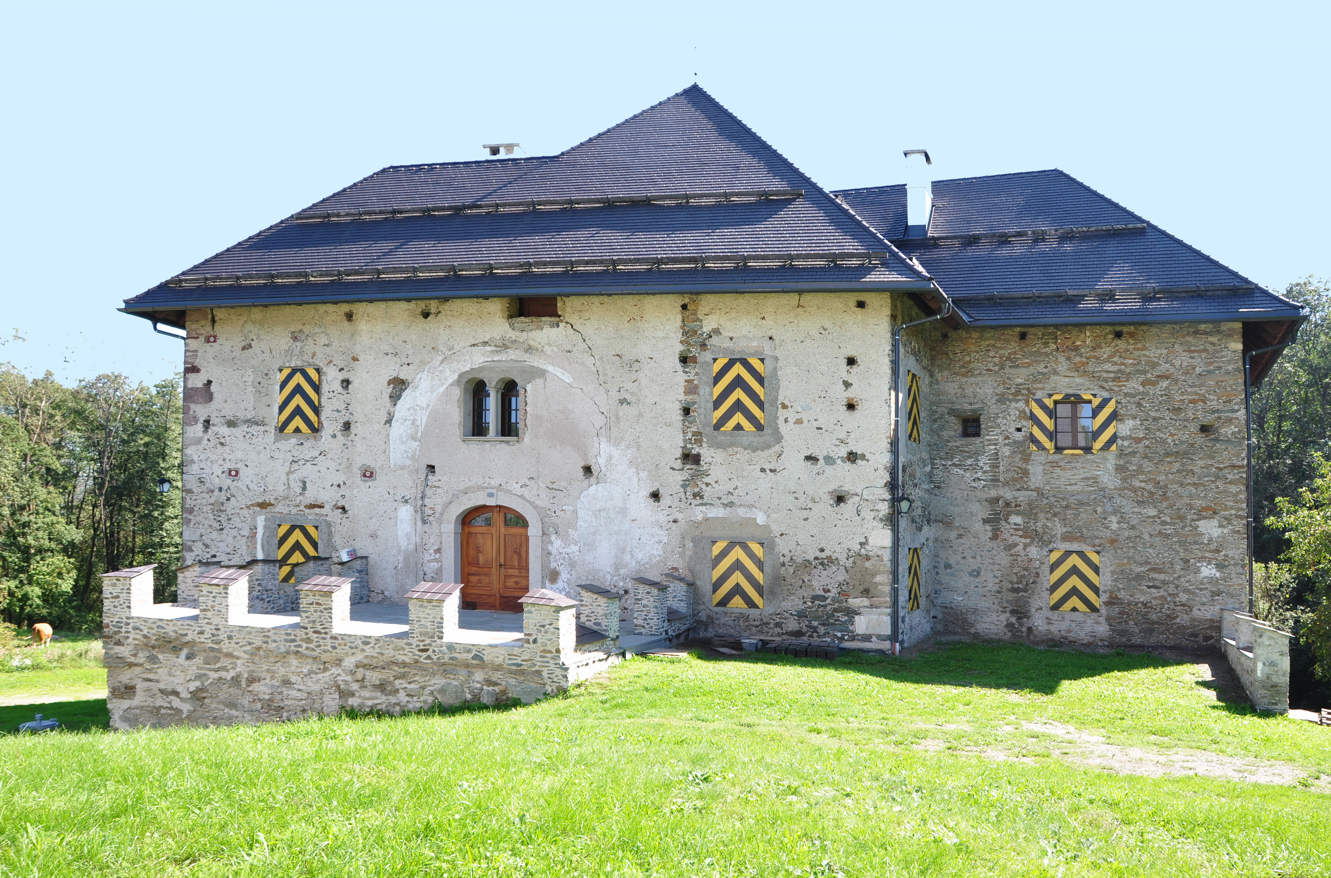 Castle in Moederndorf #1, market town Maria Saal, district Klagenfurt Land, Carinthia, Austria, EU